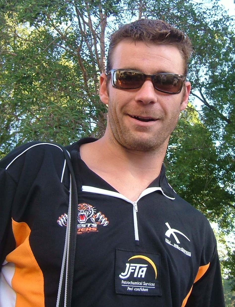 Wests Tigers Three-quarter Shane Elford - Parramatta Stadium 2006